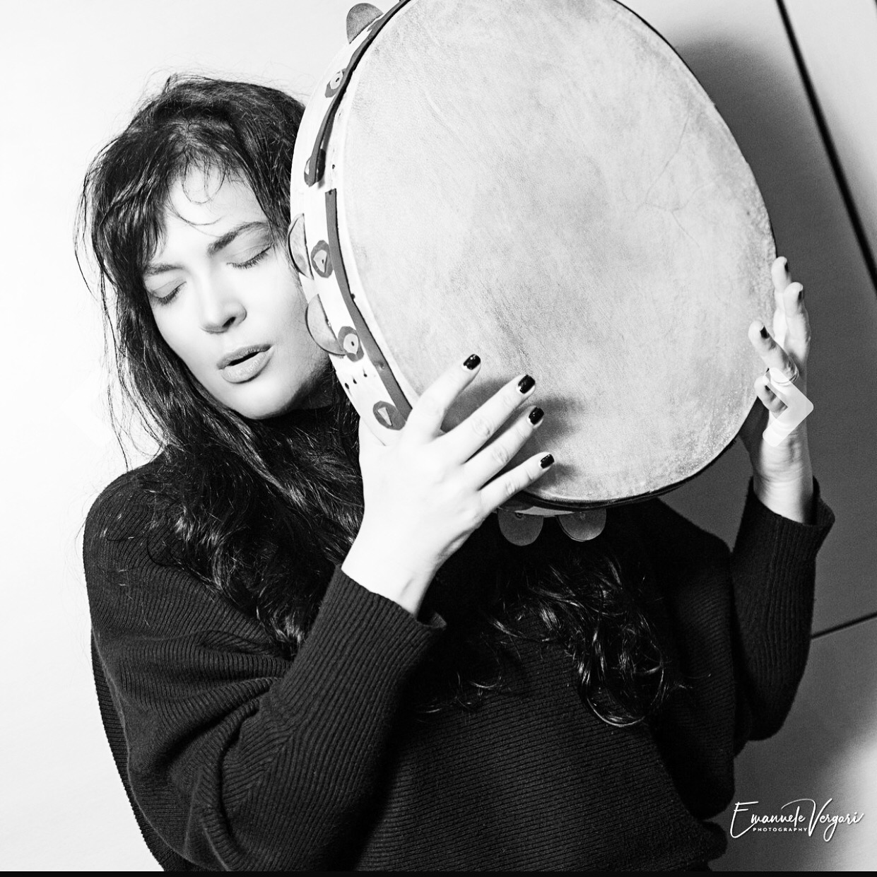 Elina Duni playing in Rome, 2019